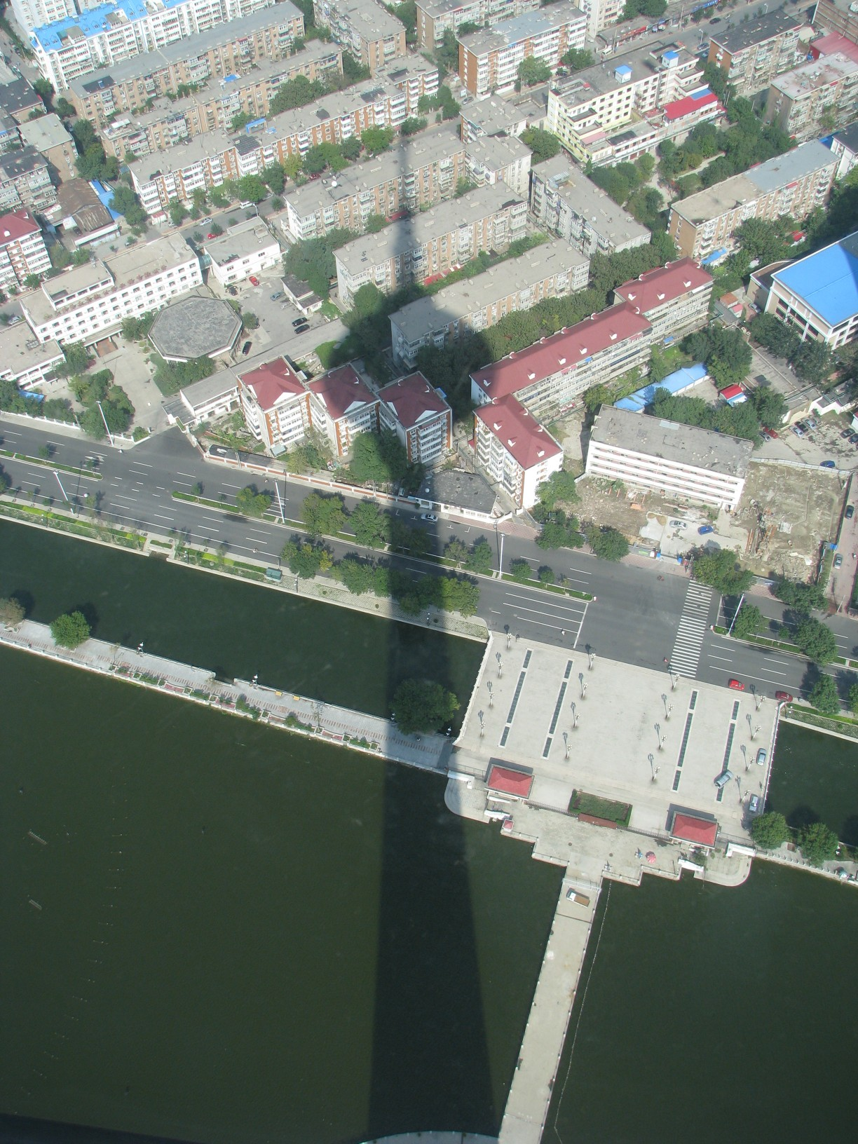 view from Tianjin TV tower on its shadow in late afternoon (small, lowres)